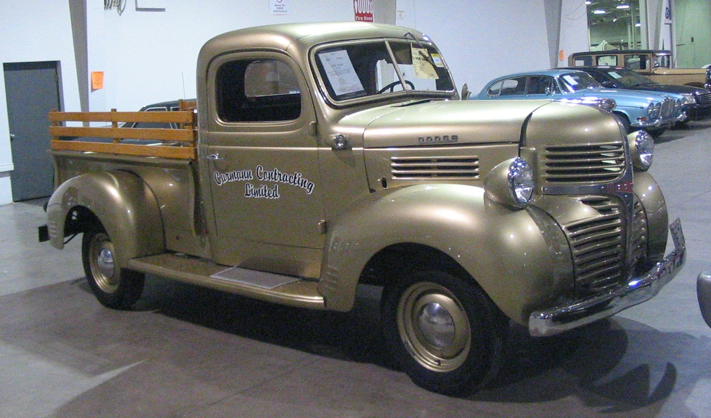 1947 Dodge pickup photographed in Mississauga, Ontario, Canada at the Toronto Classic Car Auction of spring 2012.